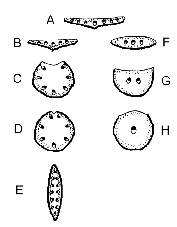 Cross sections through various types of leaves/Querschnitte durch verschiedene Blatt-Typen. Dotted/Punktiert = palisade mesophyll/Palisadenparenchym xylem of vascular bundle is black/Holzteile der Leitbündel sind schwarz lower leaf surface = thick line/Blattunterseite dicke Linie A = Normales bifaziales Blatt; B = invers bifaziales Blatt (Allium ursinum); C,D Ableitung des unifazialen Rundblattes (Allium sativum, Juncus effusus); E = unifaziales Schwertblatt (Iris); F = Äquifaziales Flachblatt; G = äquifaziales Nadelblatt; H = Äquifaziales Rundblatt (Sedum).